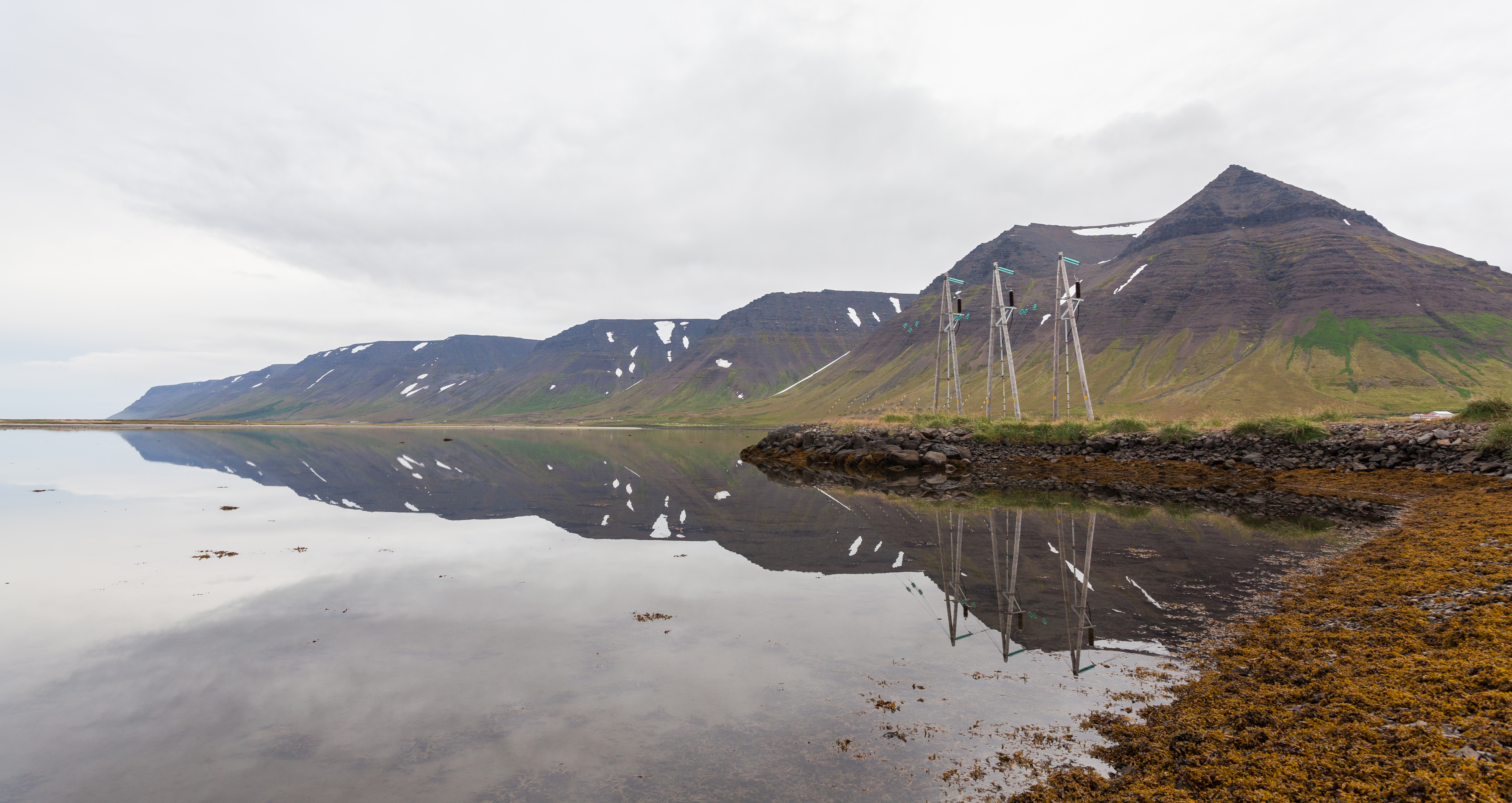 Dýrafjörður, Vestfirðir, Iceland